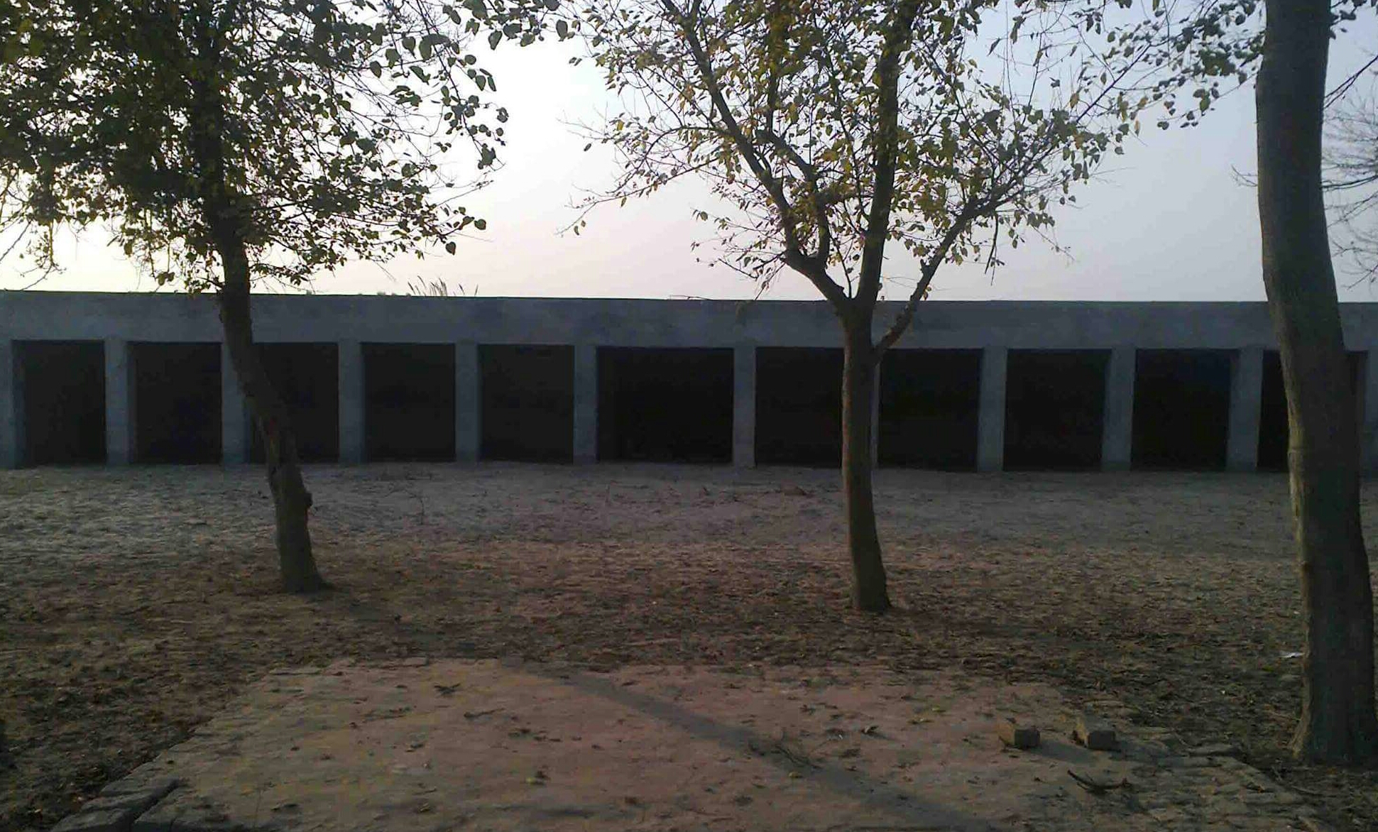 I also Uploaded this Photo on Botala Facebook Page & on website